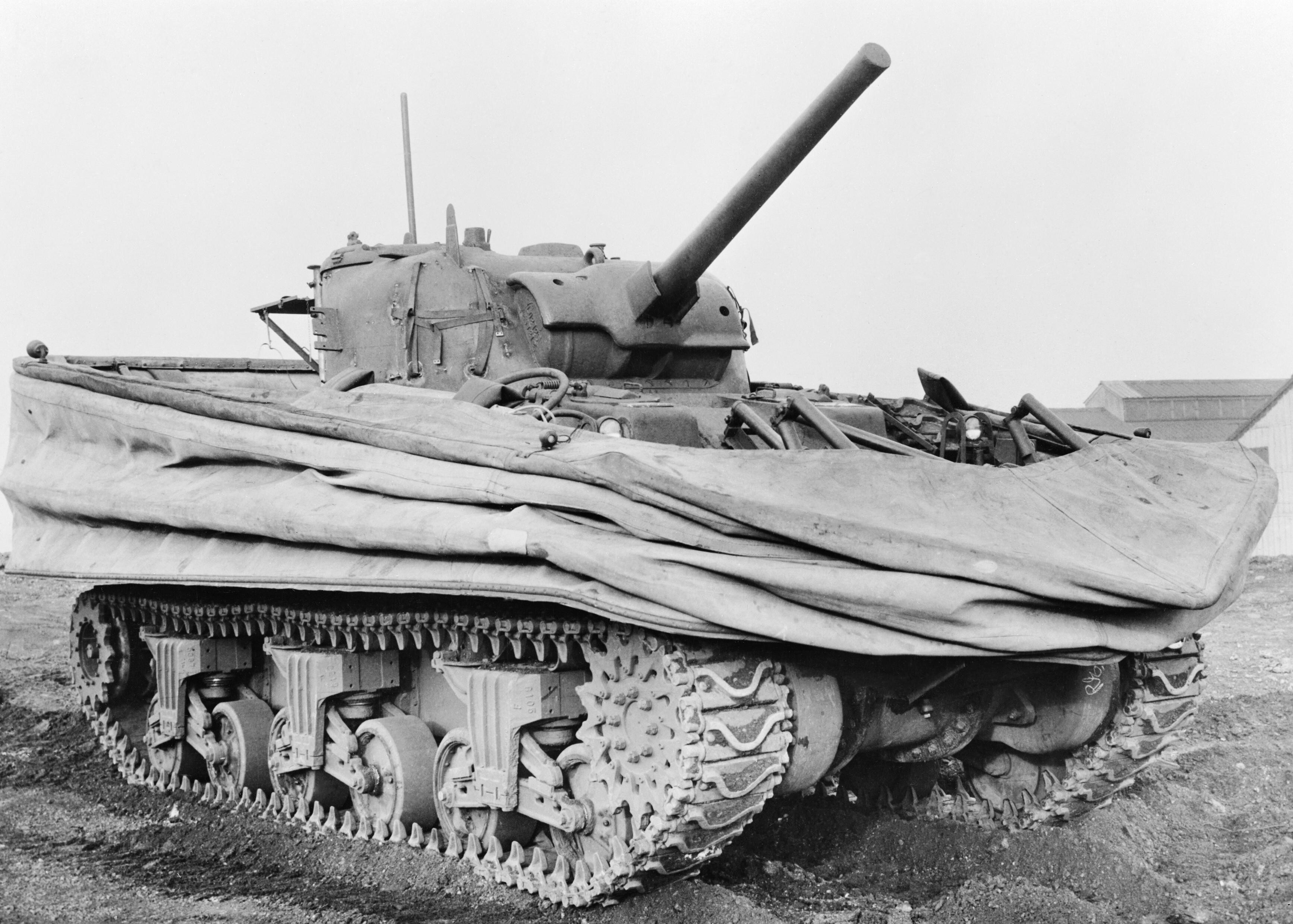 Sherman DD (Duplex Drive) amphibious tank with waterproof float screens. When in the water the float screen was raised and the rear propellers came into operation.